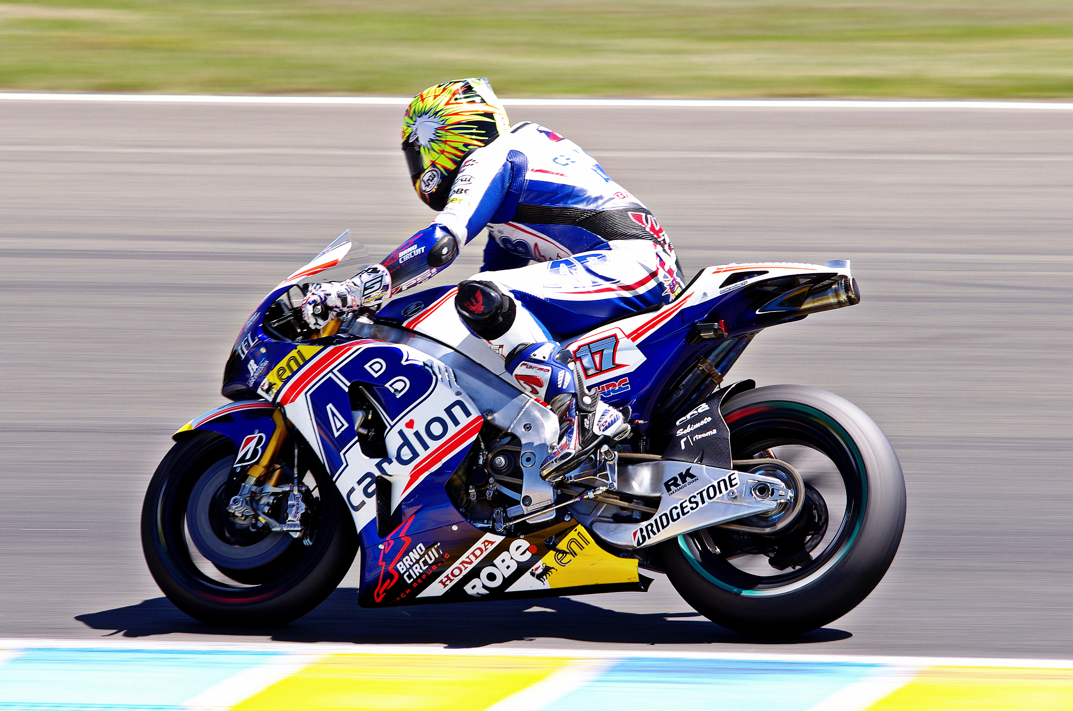 Karel ABRAHAM - Cardion AB Motoracing - MotoGP 2014 - Le Mans 2014 french motorcycle Grand Prix at Le Mans Bugatti Circuit